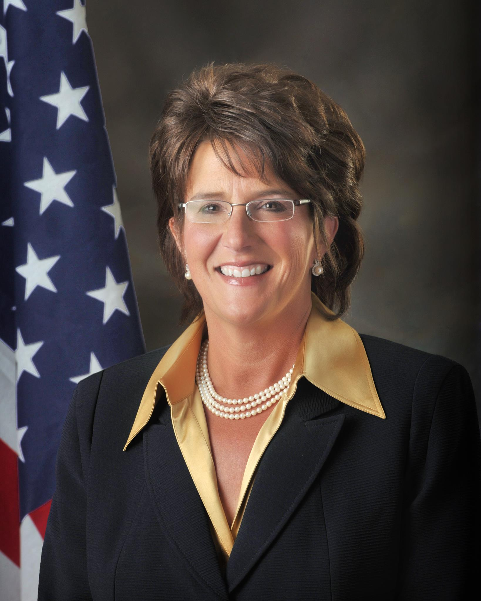 Official portrait of Congresswoman Jackie Walorski (R-IN).